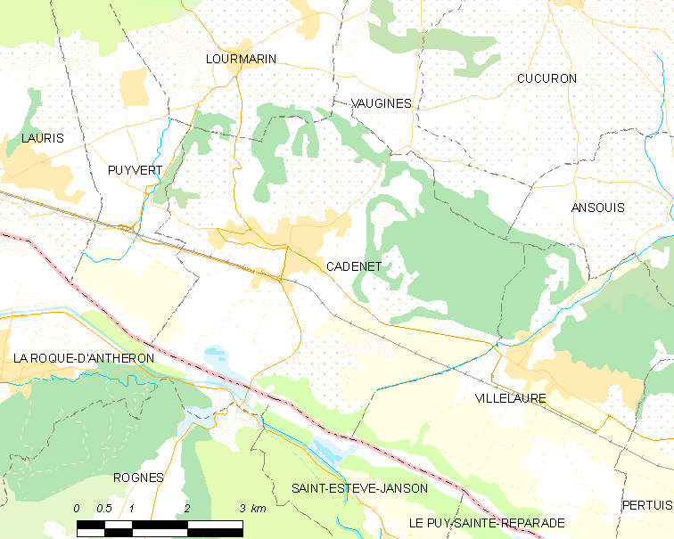 Map of French municipality Cadenet